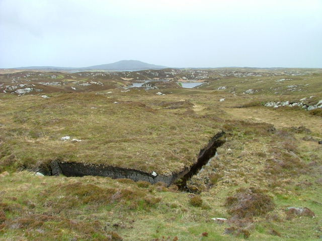 Peat at Benbecula with Ruabhal in the background, Outer Hebrides, Scotland